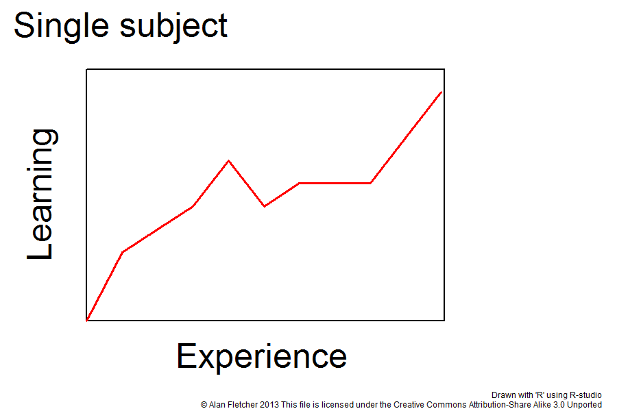 Learning Curve : Single Trial